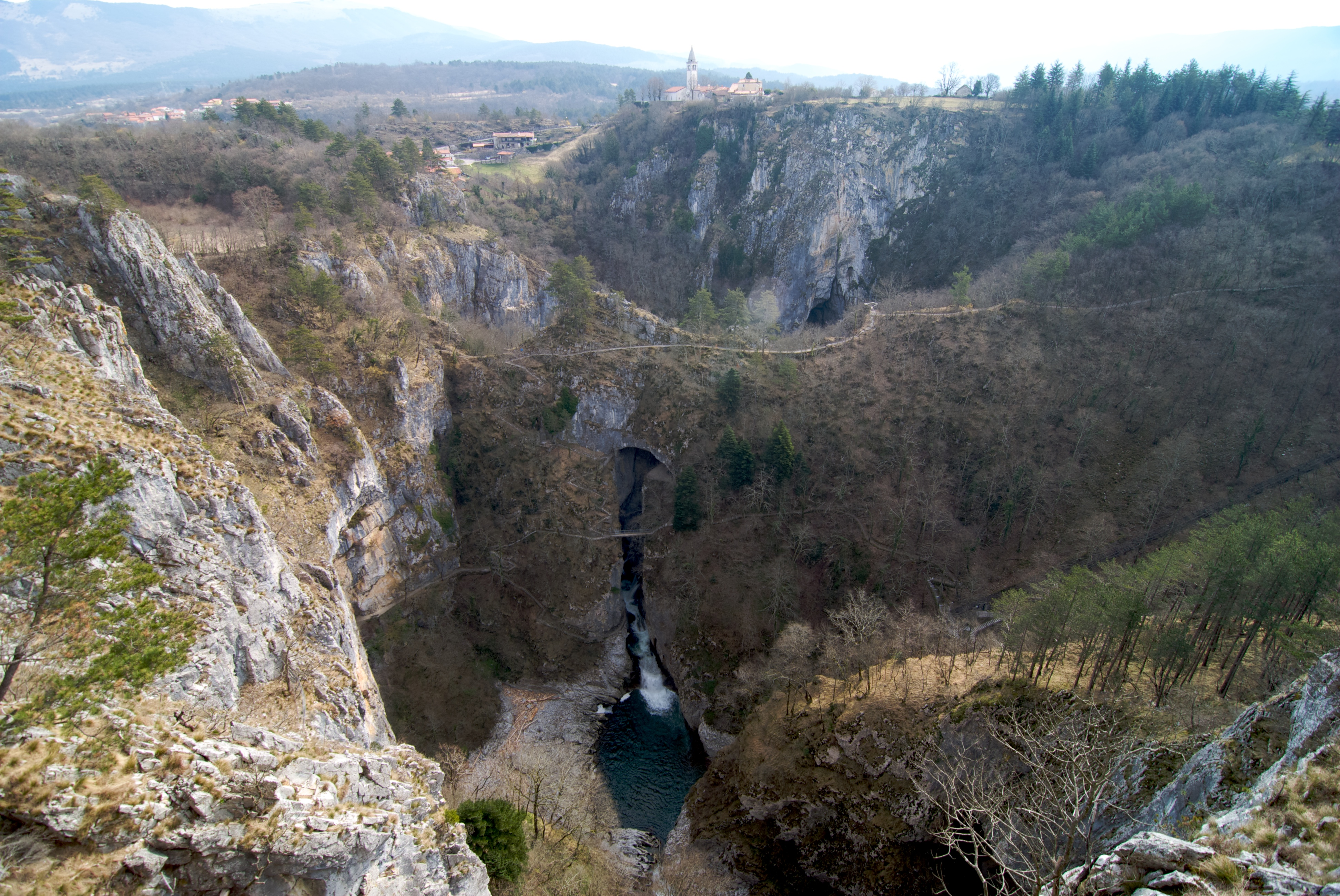 Also known as Škocjanske Jame, reccognised as one of the most important caves in the world and listed by UNESCO since 1986.